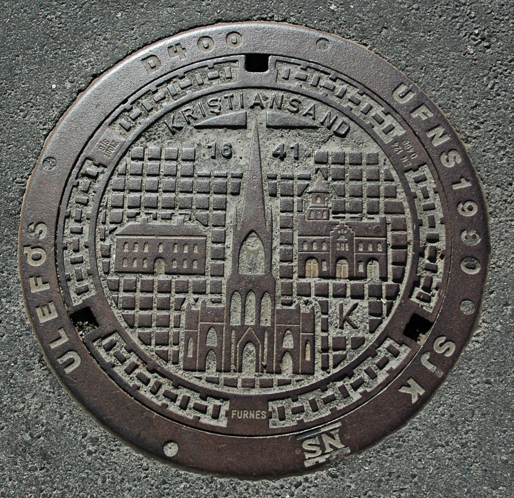 Manhole cover from Kristiansand, Norway. My own photograph, July 2006.